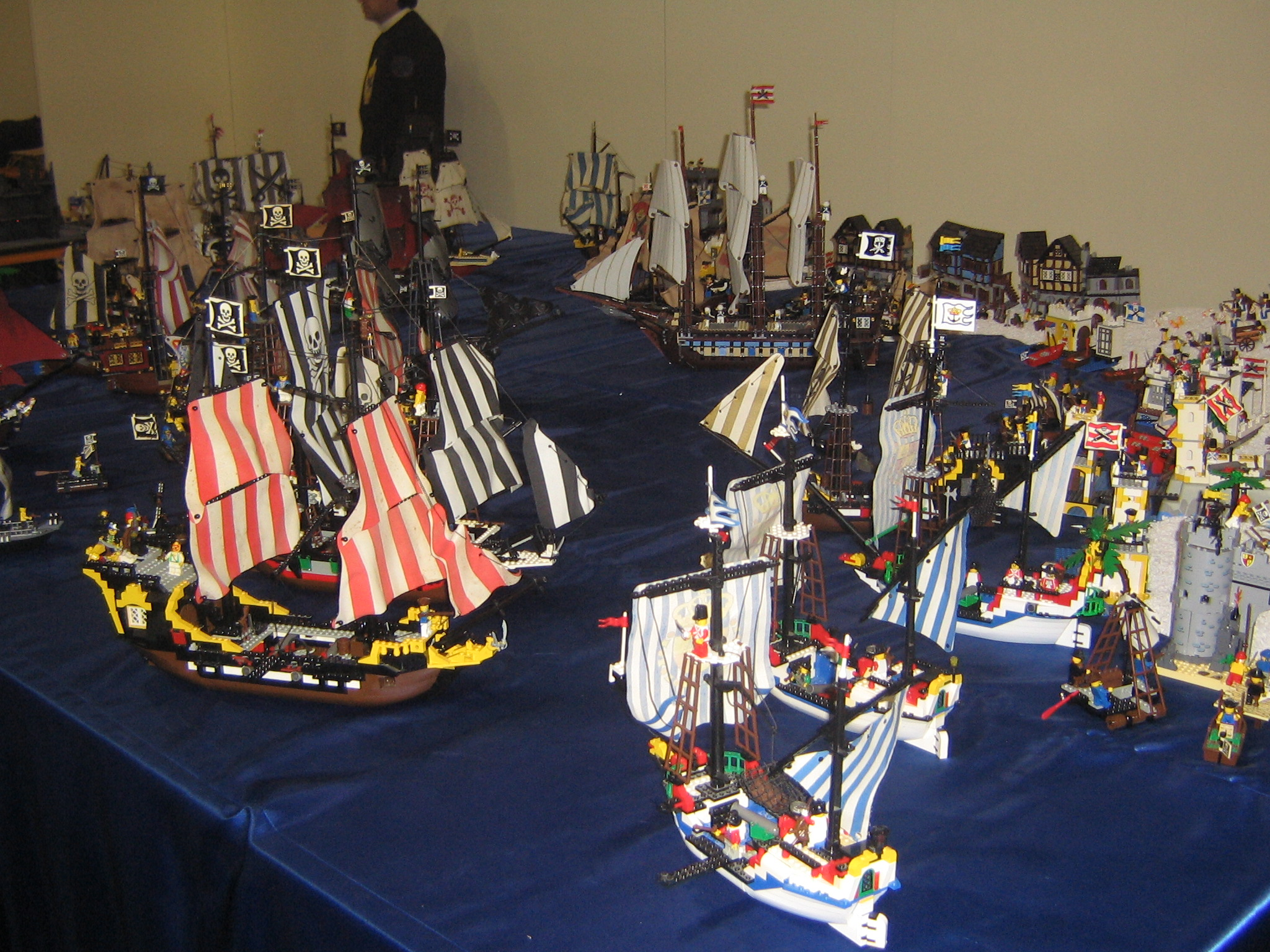 Model Expo Italy 2015